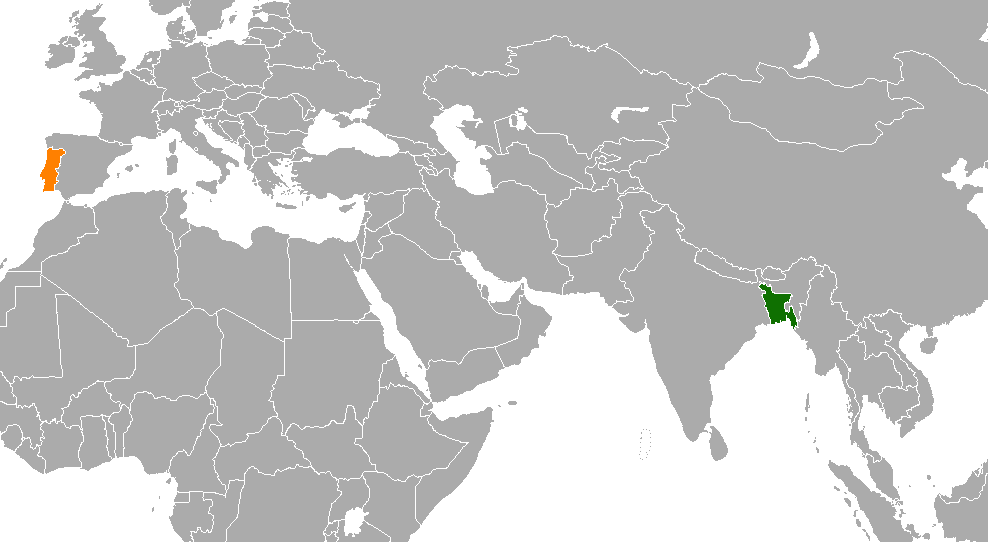 Map showing the locations of both Bangladesh and Portugal